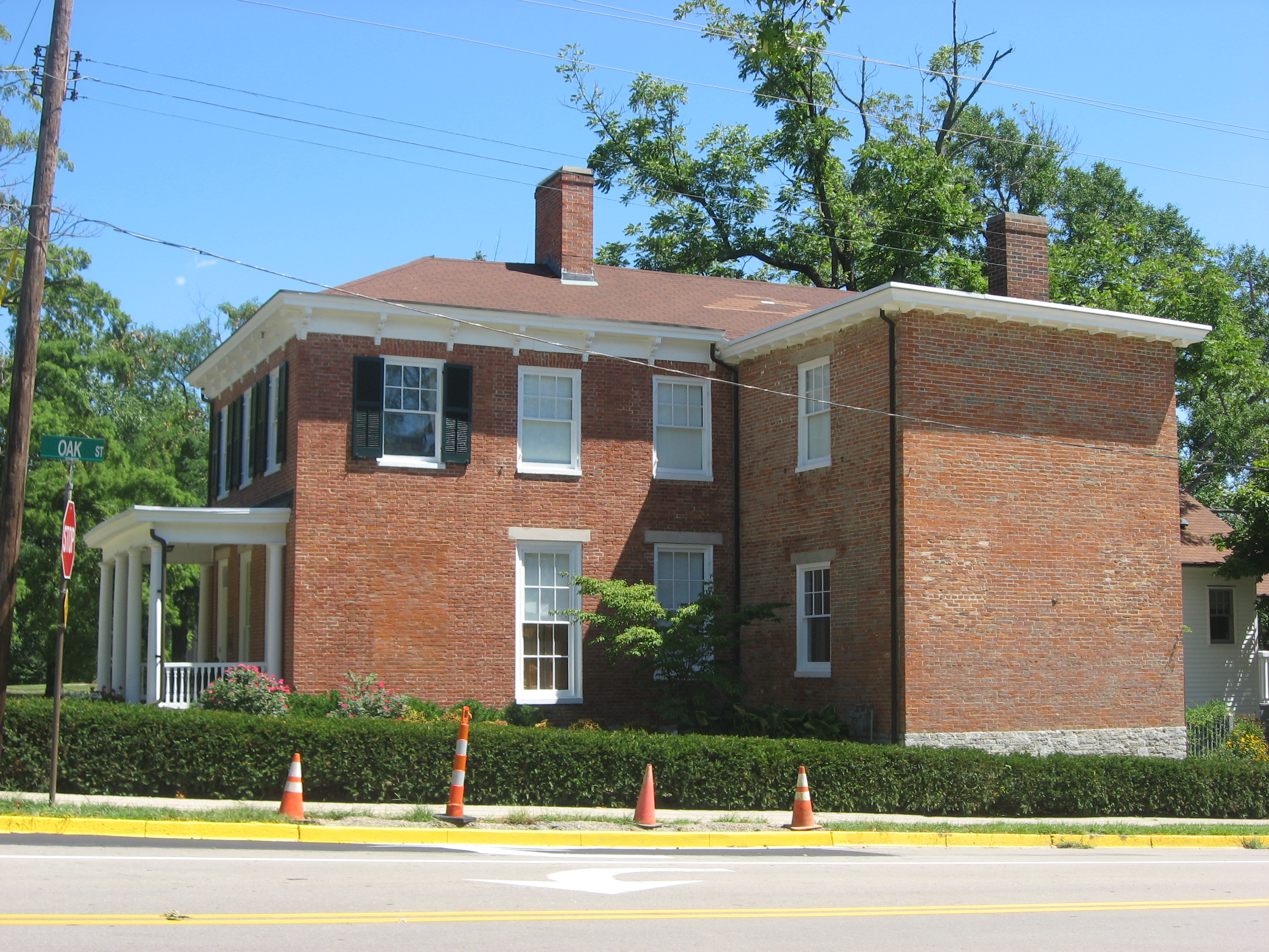 Front and western side of the William H. McGuffey House, located at 401 E. Spring Street on the campus of Miami University in Oxford, Ohio, United States. Built in 1833 as the home of William Holmes McGuffey and since converted into a museum, it has been designated a National Historic Landmark.